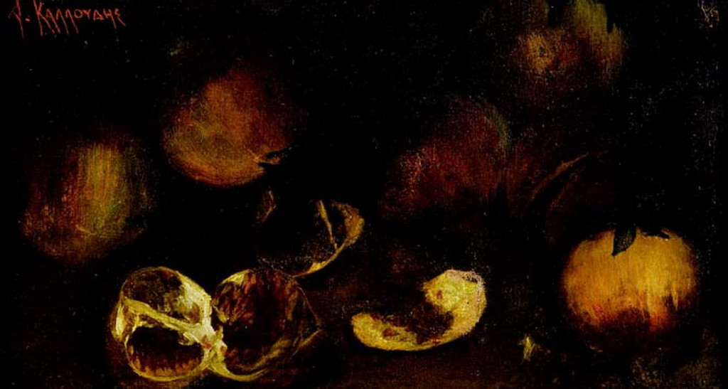 Pomegranates